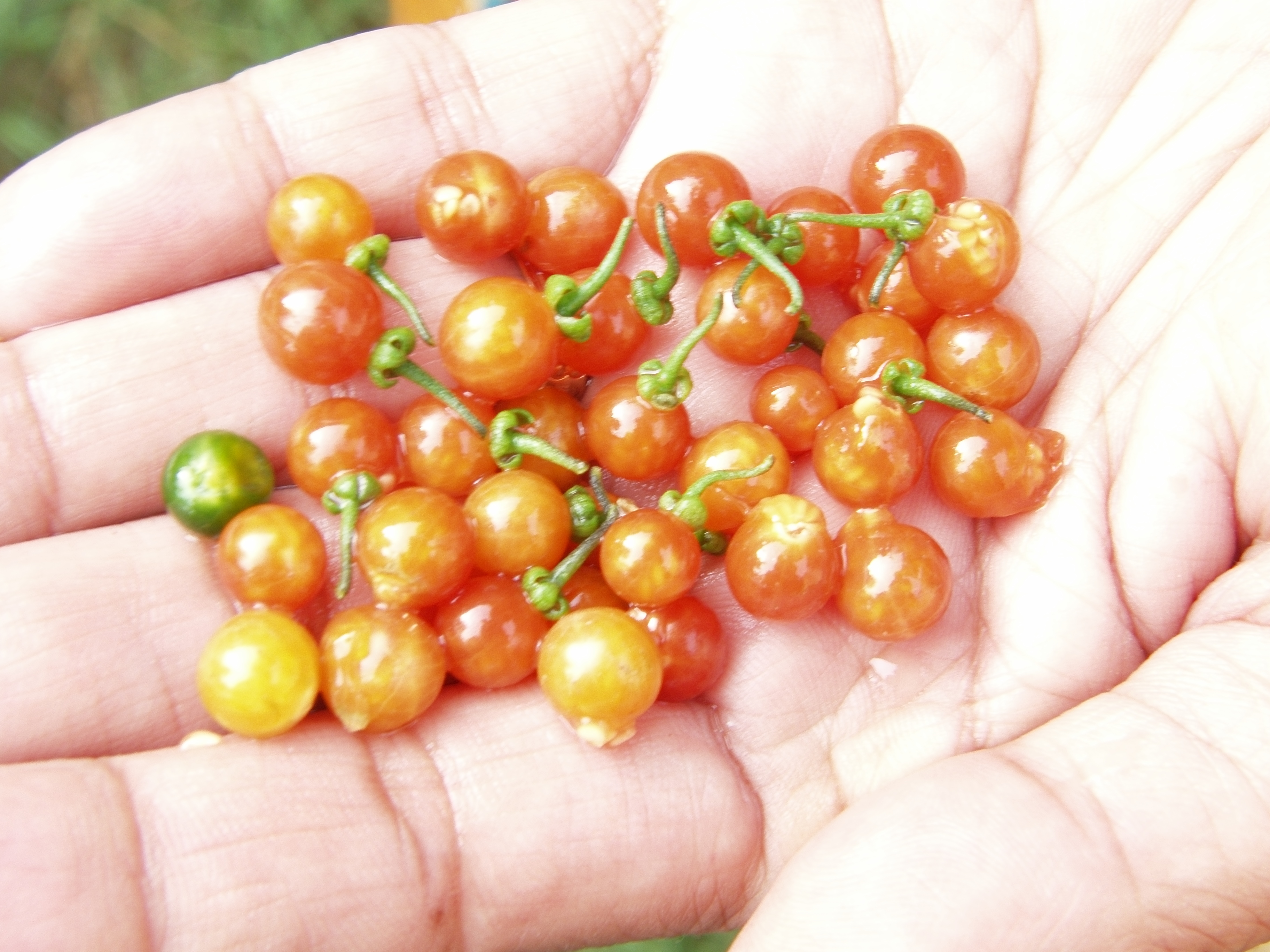 Berries of Red Makoi or Solanum nigrum eaten as a therapeutic delicacy in North India.